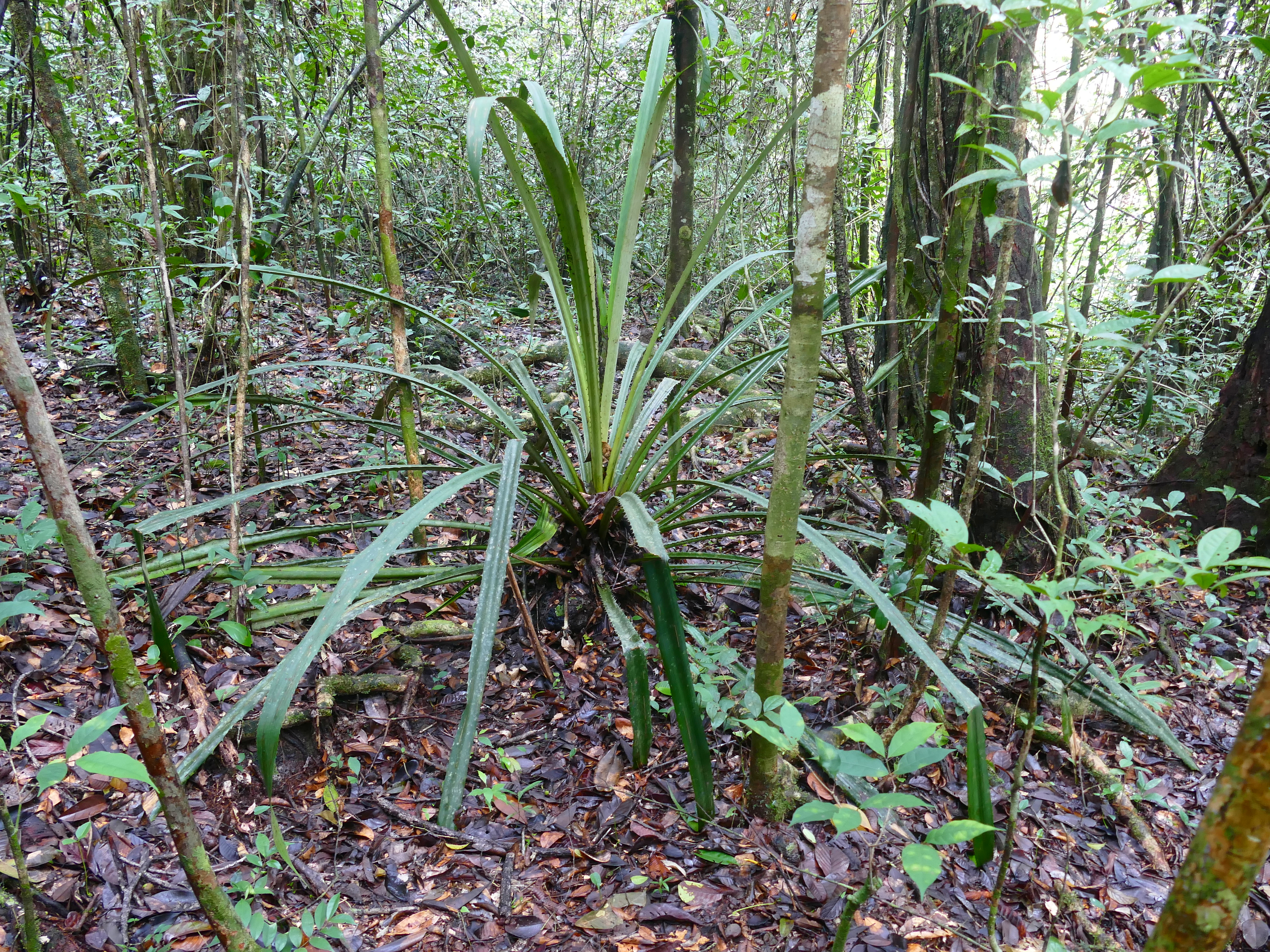 Cock-of-the-rock Trail, PK41, D6 Route de Kaw, Roura, French Guyana, FRANCE